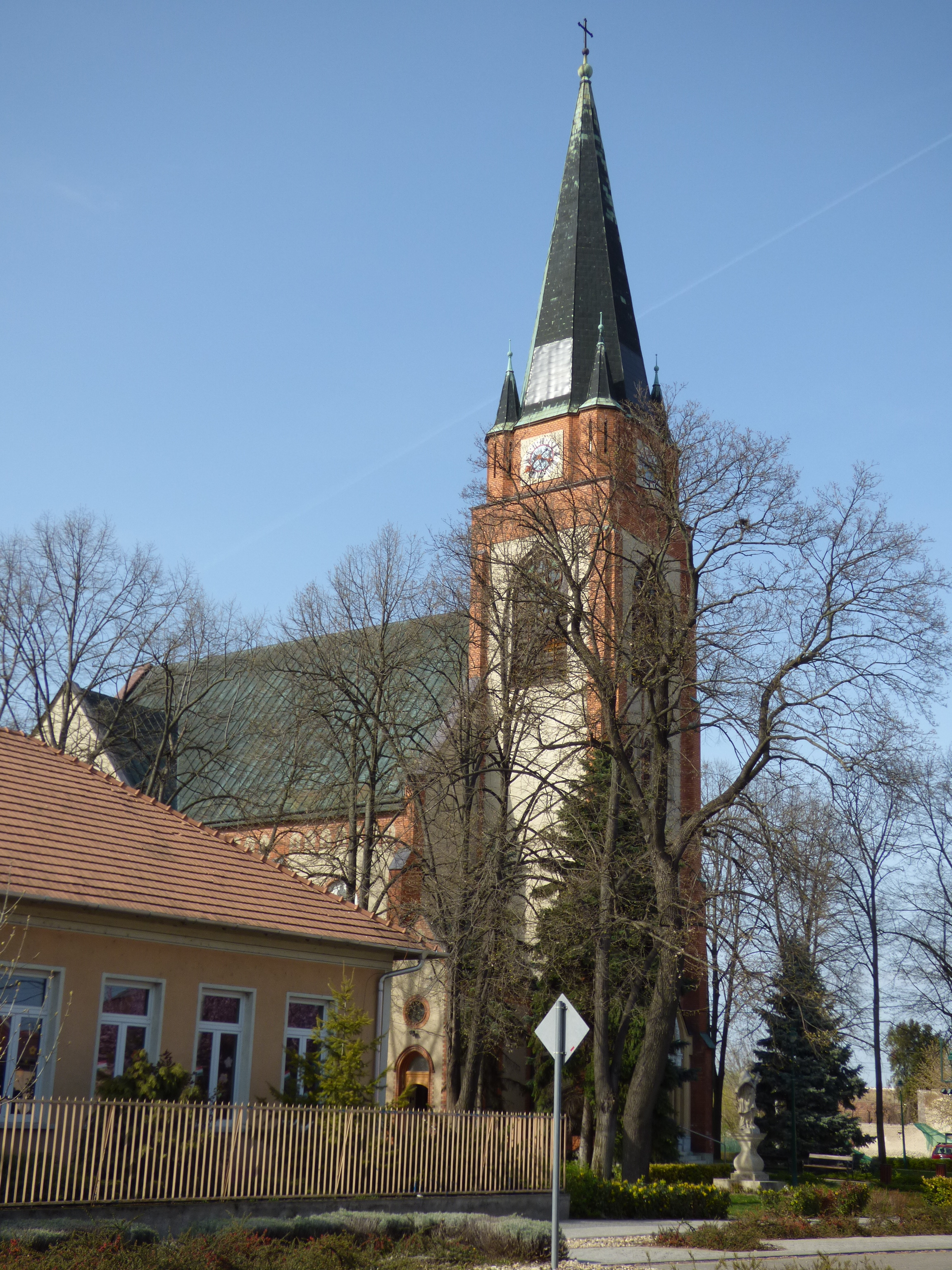 Dunaharaszti római katolikus temploma délkelet felől